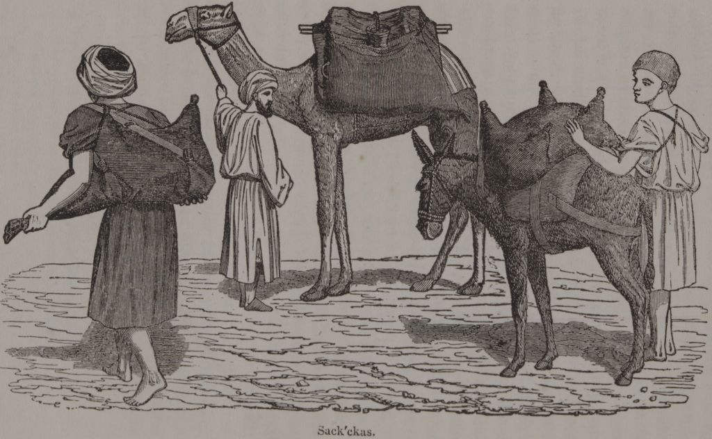 A man leading a camel which is carring a water bag on the back, followed by an ass carring a water bag which is pushed by a boy. Another boy is carrying a water bag himself. Engraving (prints).